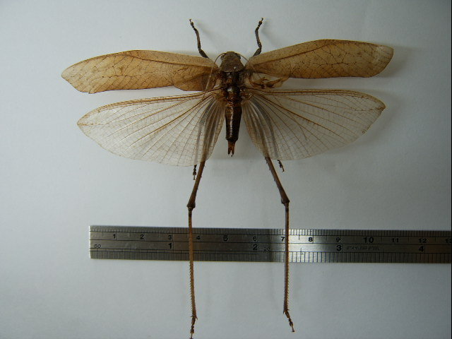 Kerry took this picture at his house on 7 July 2007 Scientific name: Mecopoda elongata Date of collection: XI 2001 Place of collection: Taipei city, Taiwan